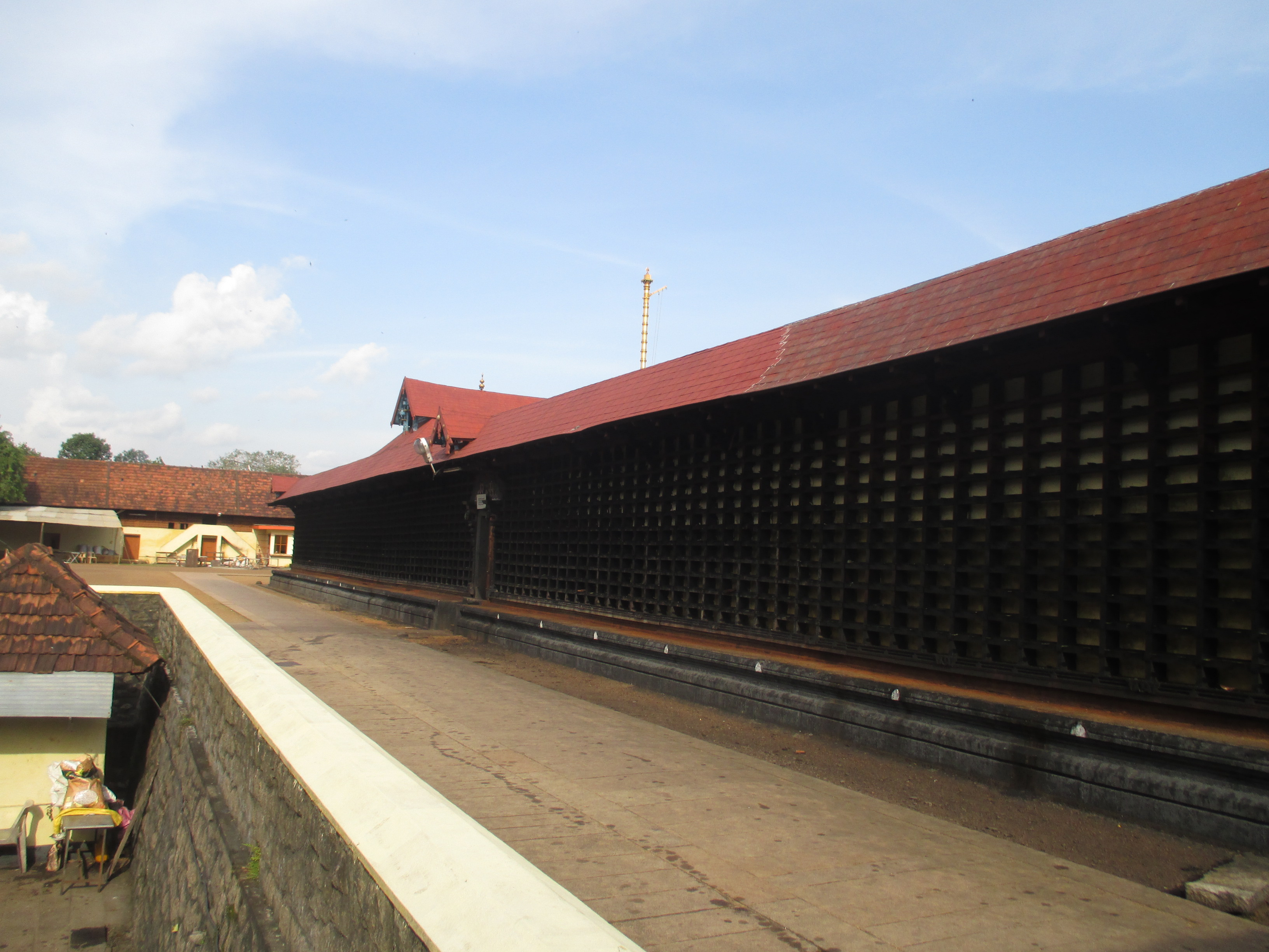 Aranmula Parthasarathy